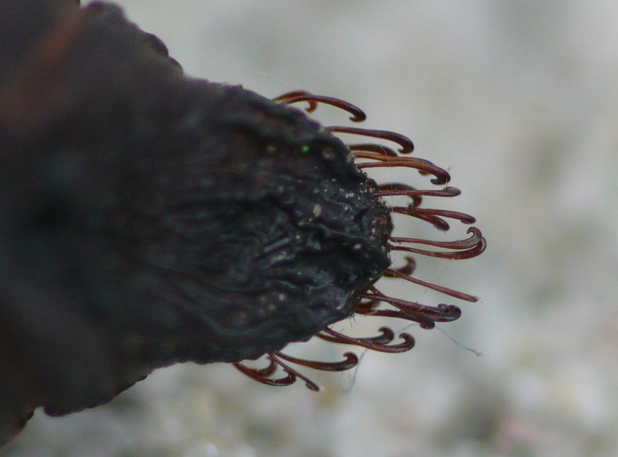 Cremaster of a pupa of the Tau Emperor (Aglia tau)